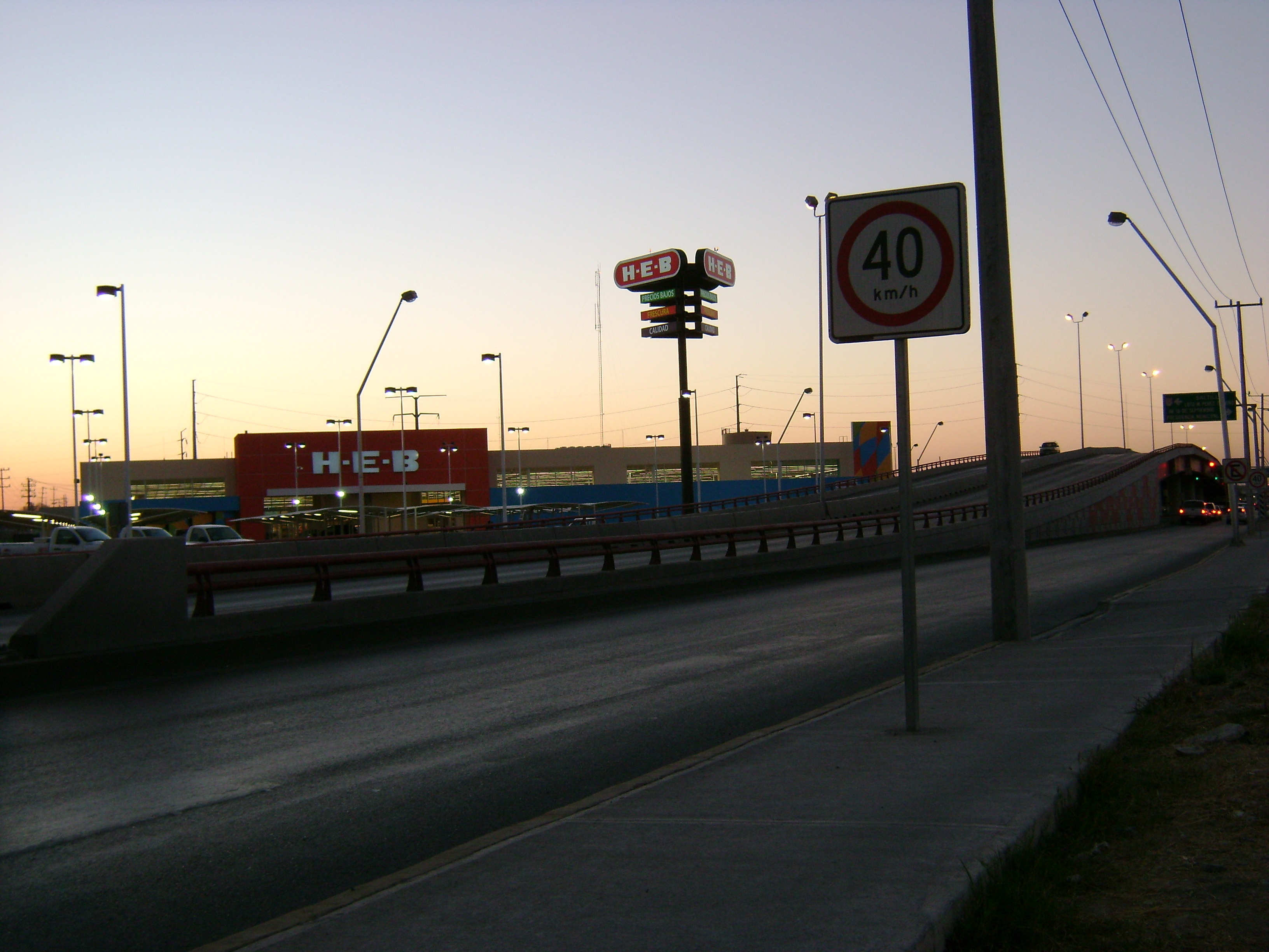 HEB Piedras Negras